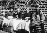 Ærtebælgning foran stalden. Nr. 2 fra højre er gårdmand Claus Clausens kone Caroline